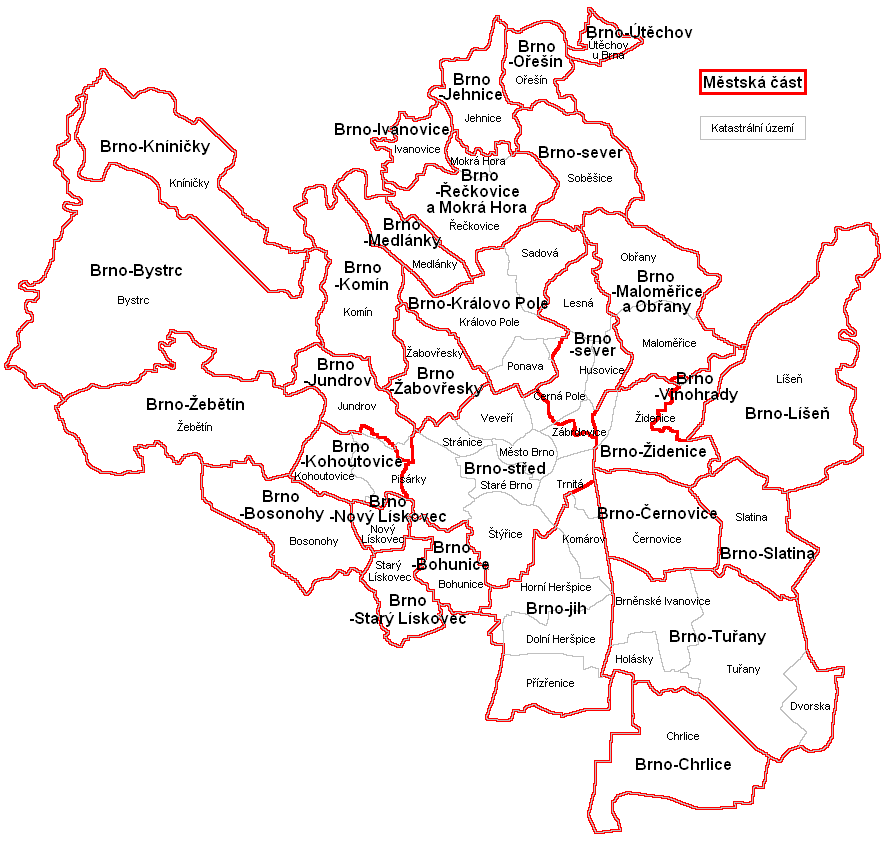 Map of municipal districts and cadastral areas of Brno